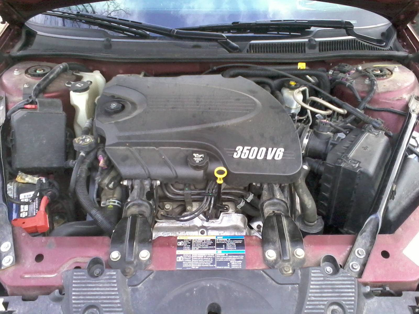 2008 Chevrolet Impala 3.5 L High Value engine without flex-fuel capability with cover